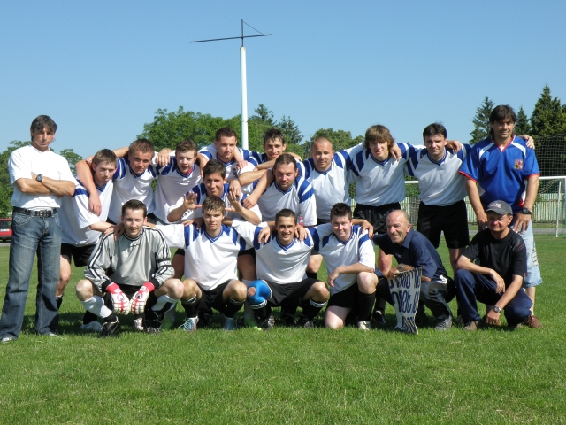 SK Bochoř